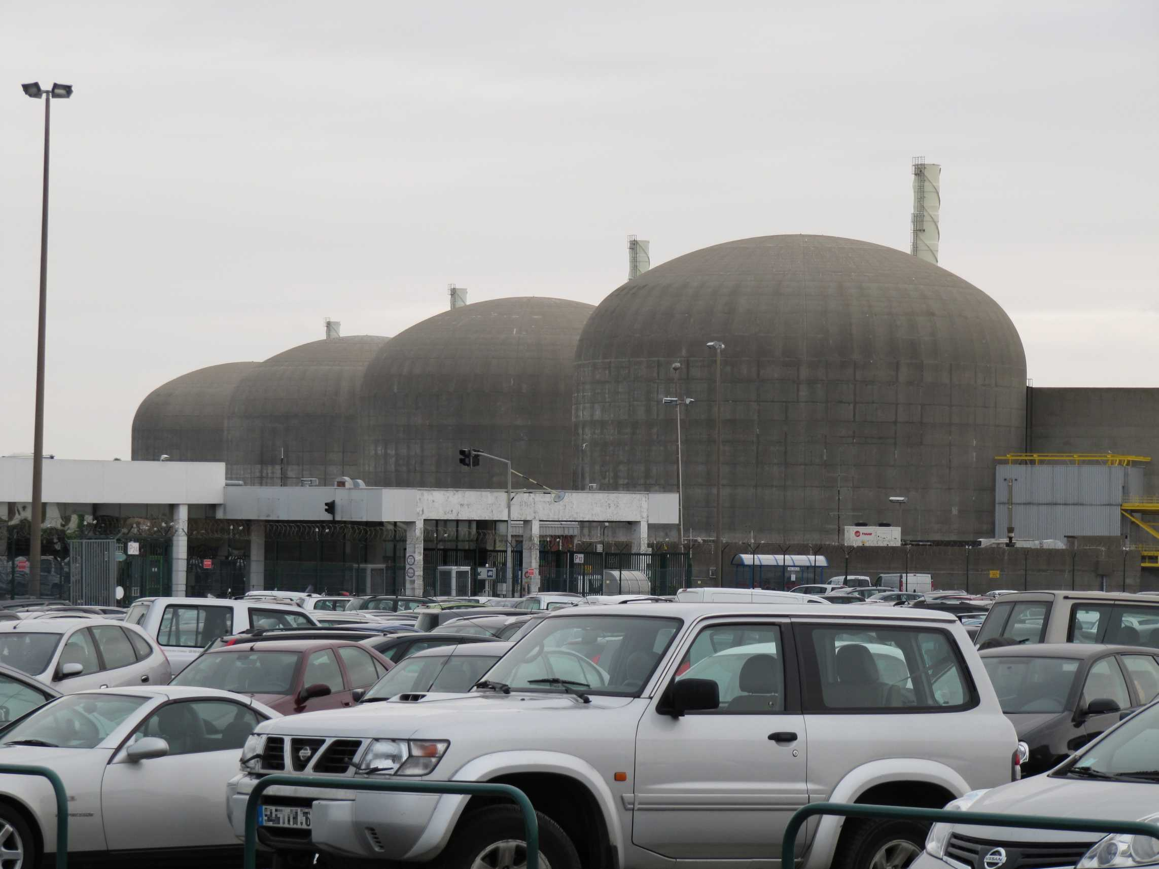 Nuclear power plant Paluel,Seine-Maritime, Normandy, France